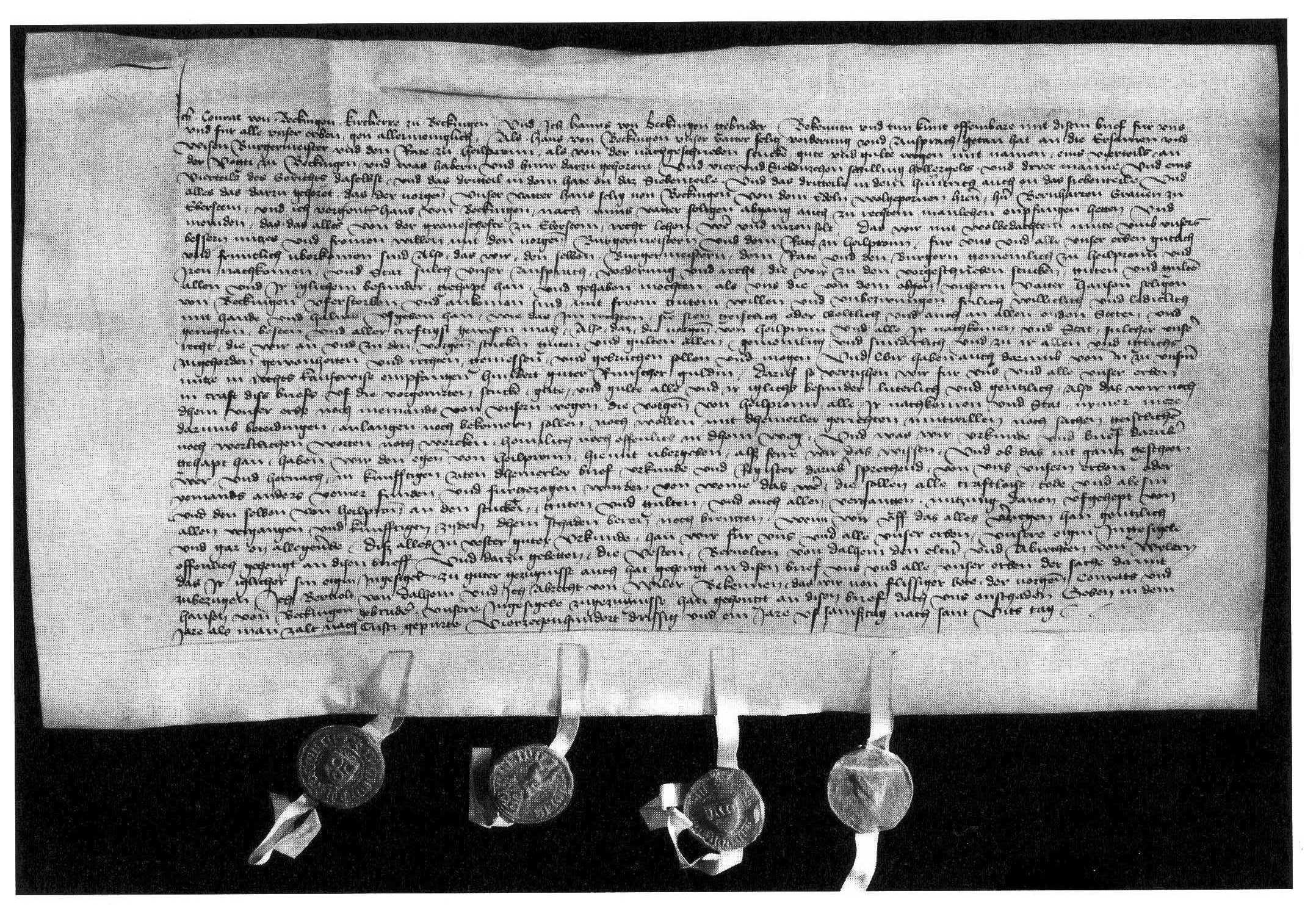 1431 Verkaufsurkunde mit den Siegeln von Konrad und Hans von Böckingen